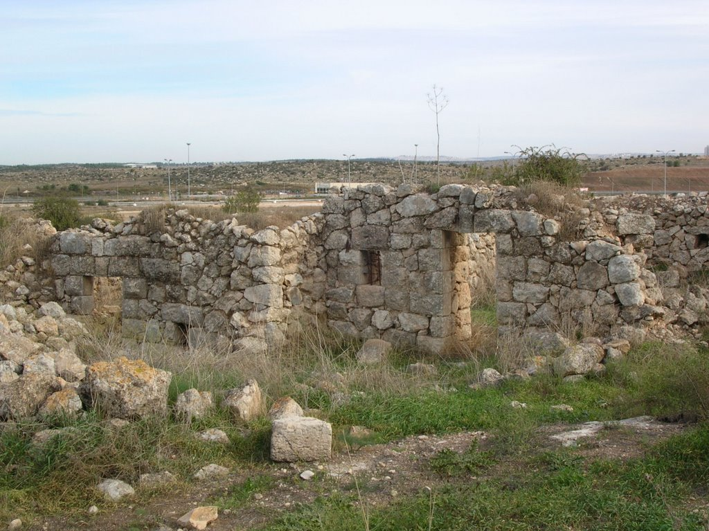 ruin of Al-Kunayyisa, formerly Palestinian village depopulated during 1948 Arab-Israeli War